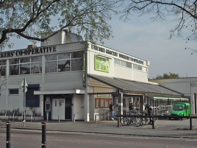 A photo of Unicorn Grocery